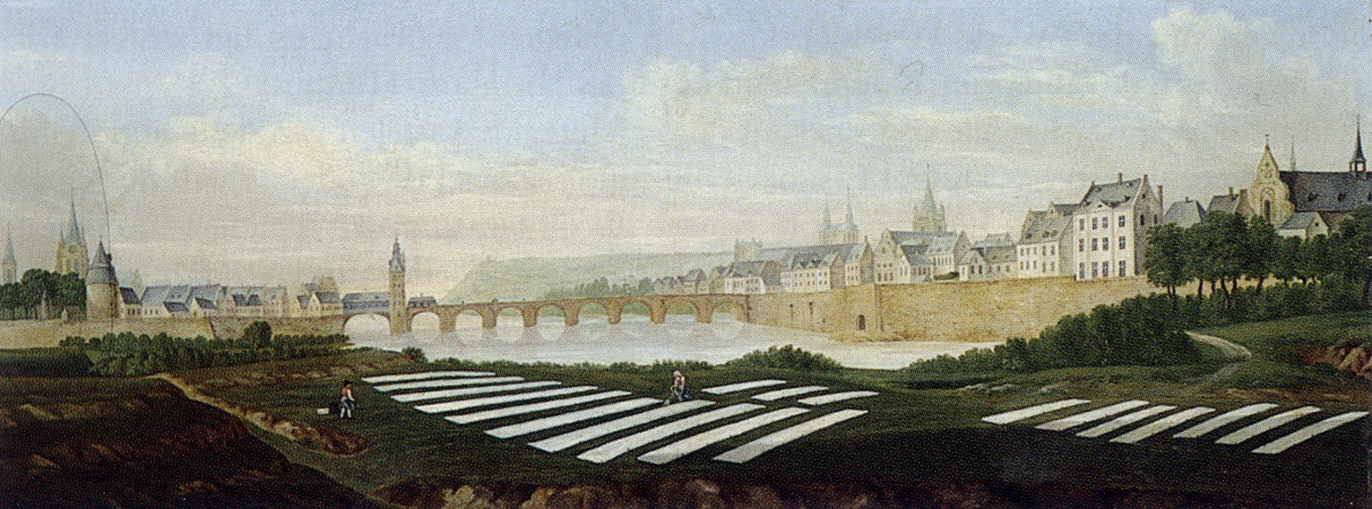 View of the Meuse river in Maastricht from the Isle of Saint Anthony. Oil painting attibuted to the military engineer captain Van den Heuvel, 1793.